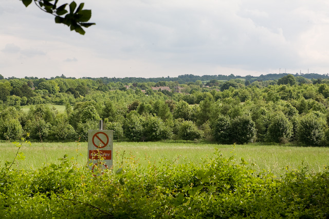 View south towards Sir John Moore barracks From footpath east of Church Lane, Littleton.